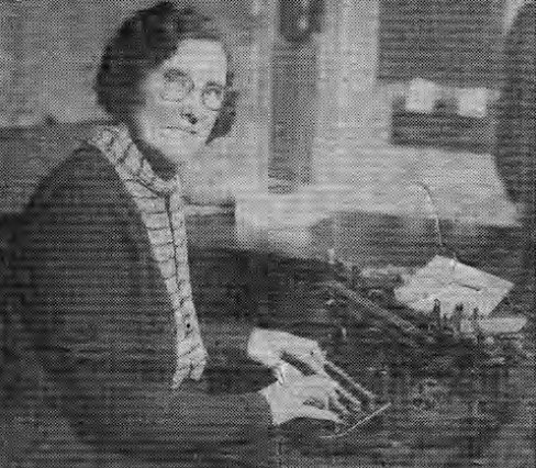 Olive Hoskins at work in the army building, New York City